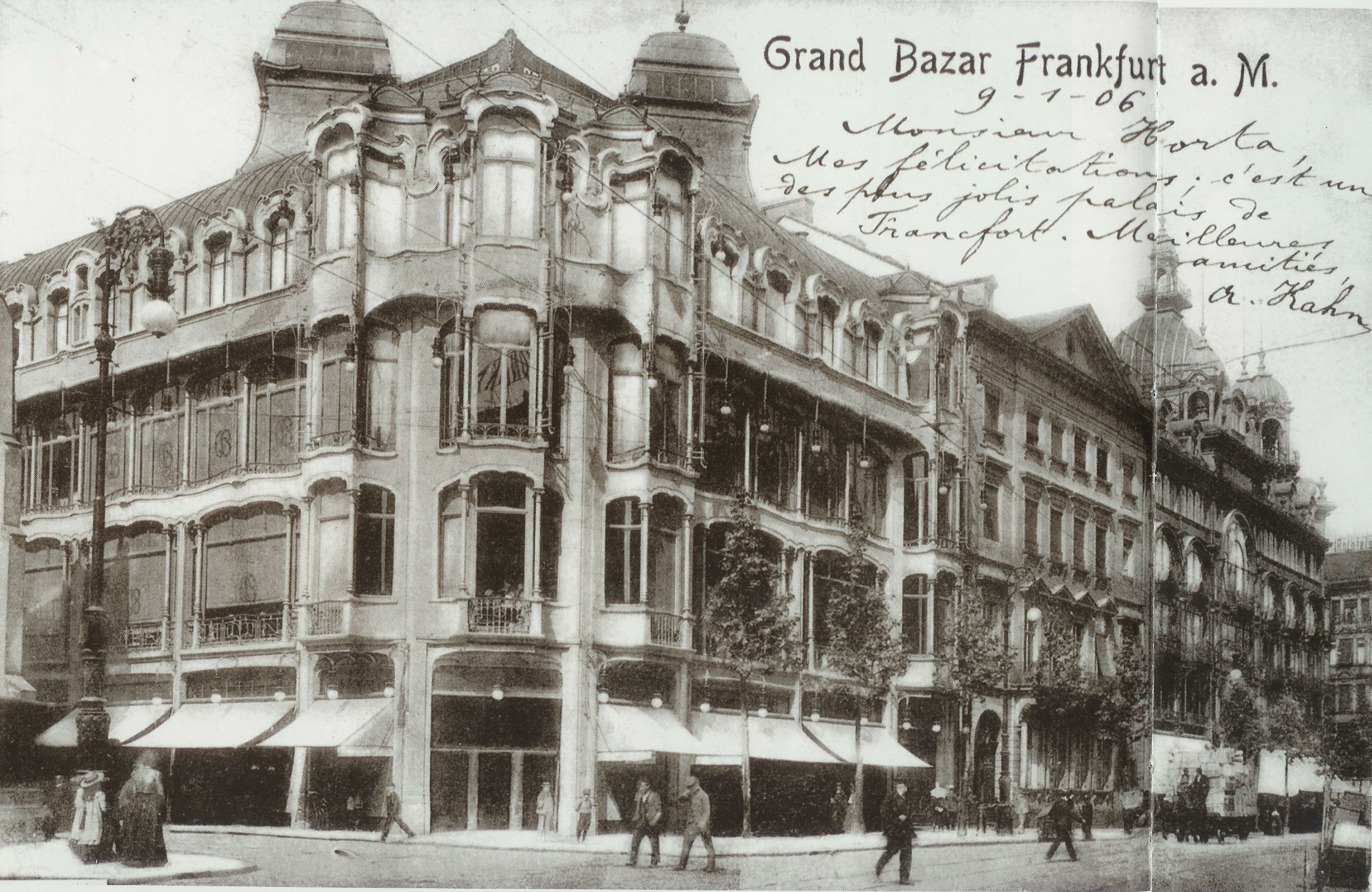 Grand Bazar Francfort (Destroyed, Francfort), collection Hortamuseum